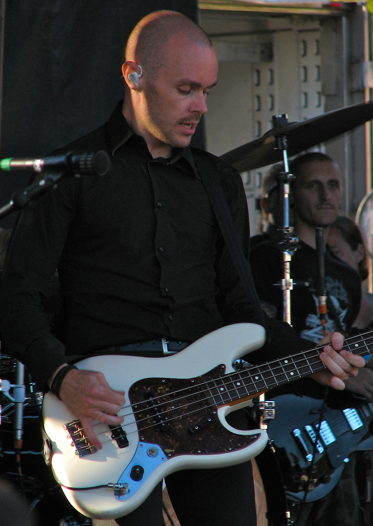 AFI @ Warped Tour 2006, Vancouver.